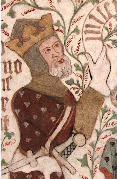 Waldemar IV of Denmark (Valdemar Atterdag) shown on 14th century fresco in Næstved's Saint Peter's Church (Sankt Peders Kirke). The fresco was created shortly after the king's death, and rediscovered in the late 19th century. The three lions in the king's coat of arms are 19th century reconstructions based on a preserved seal used by king Valdemar.